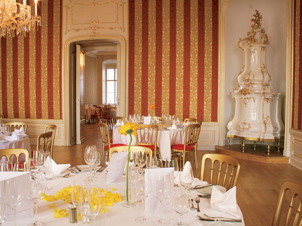 The Coronelli room of Baroque Mollard-Clary Palace